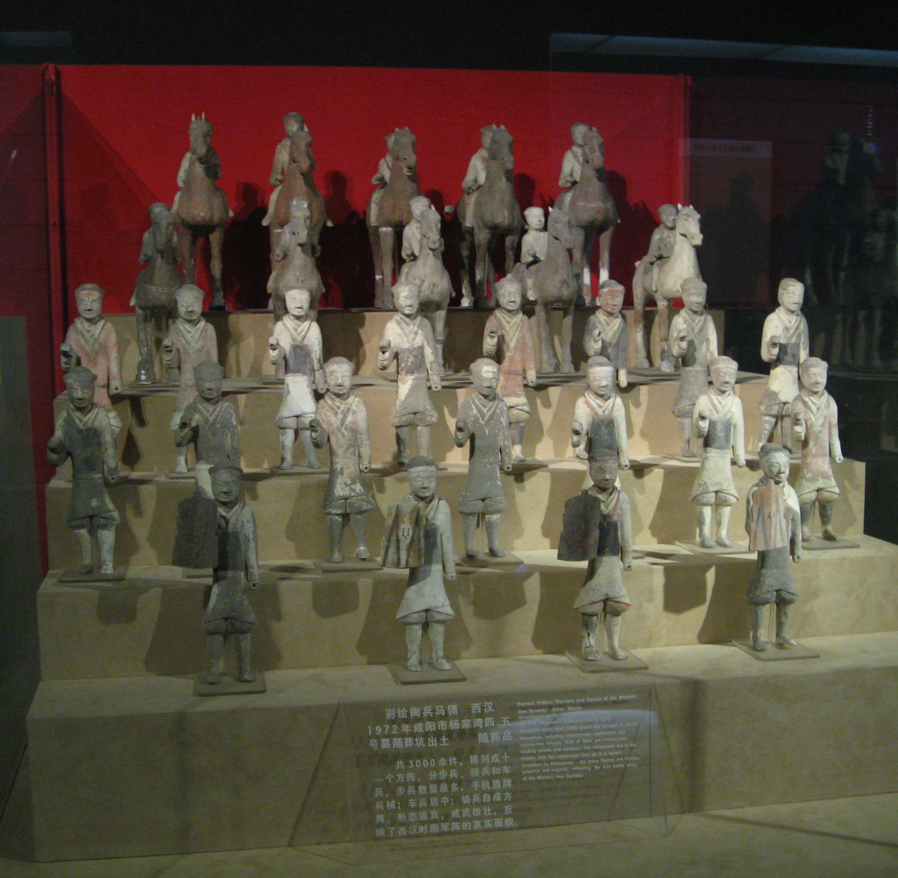 Warrior Figurines. Western Han dynasty. Shaanxi History Museum, Xi'an